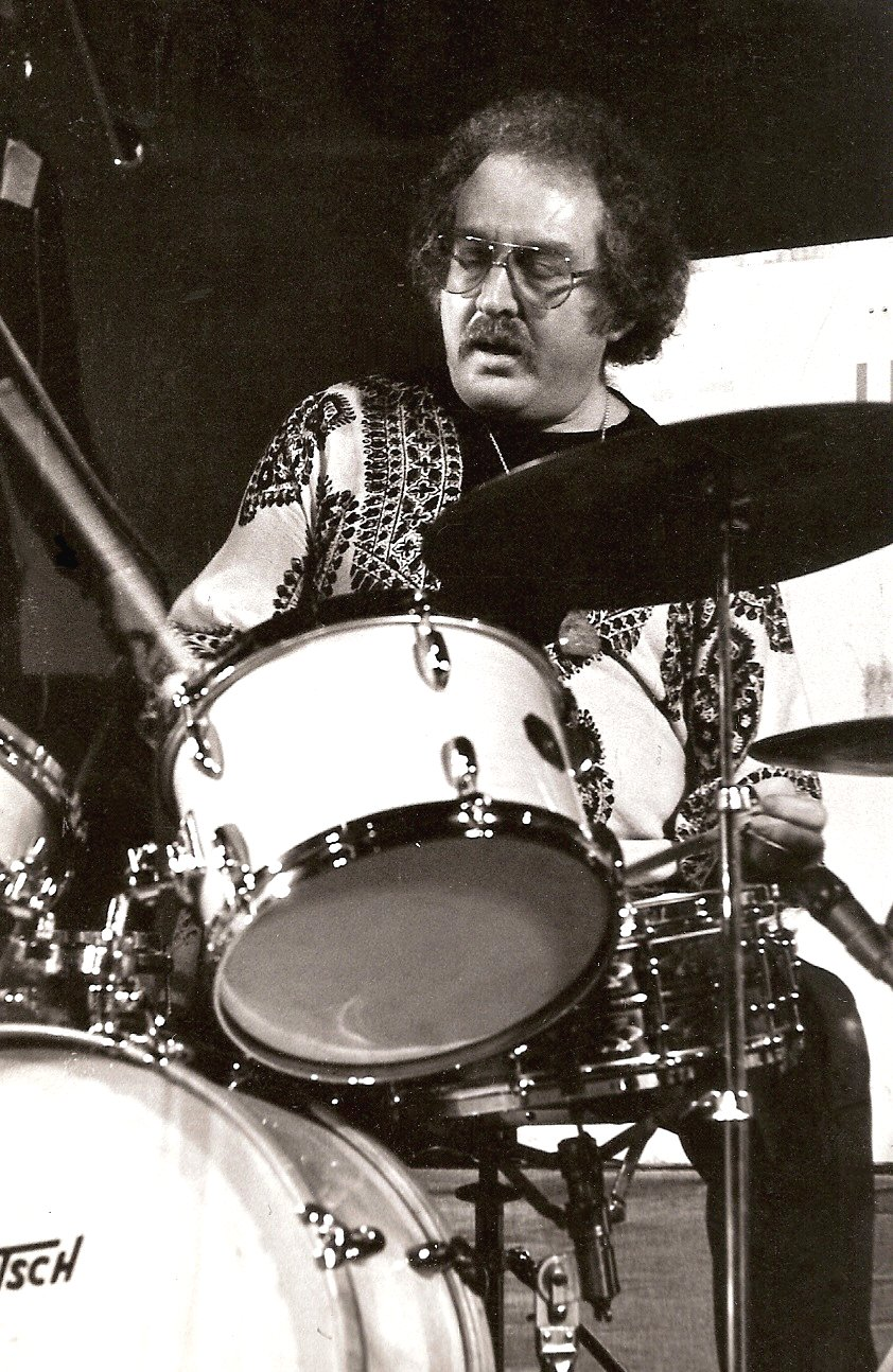 Mel Lewis (1979), an American jazz drummer